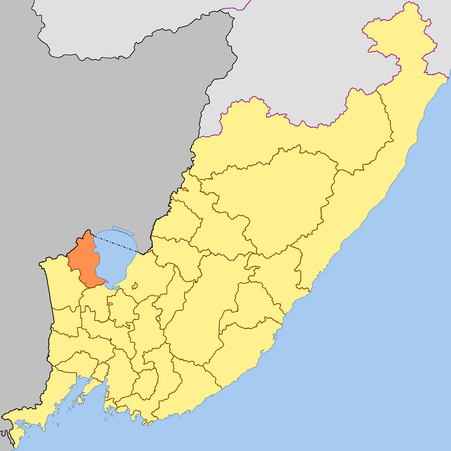 Khankaysky district on the map of Primorsky kray